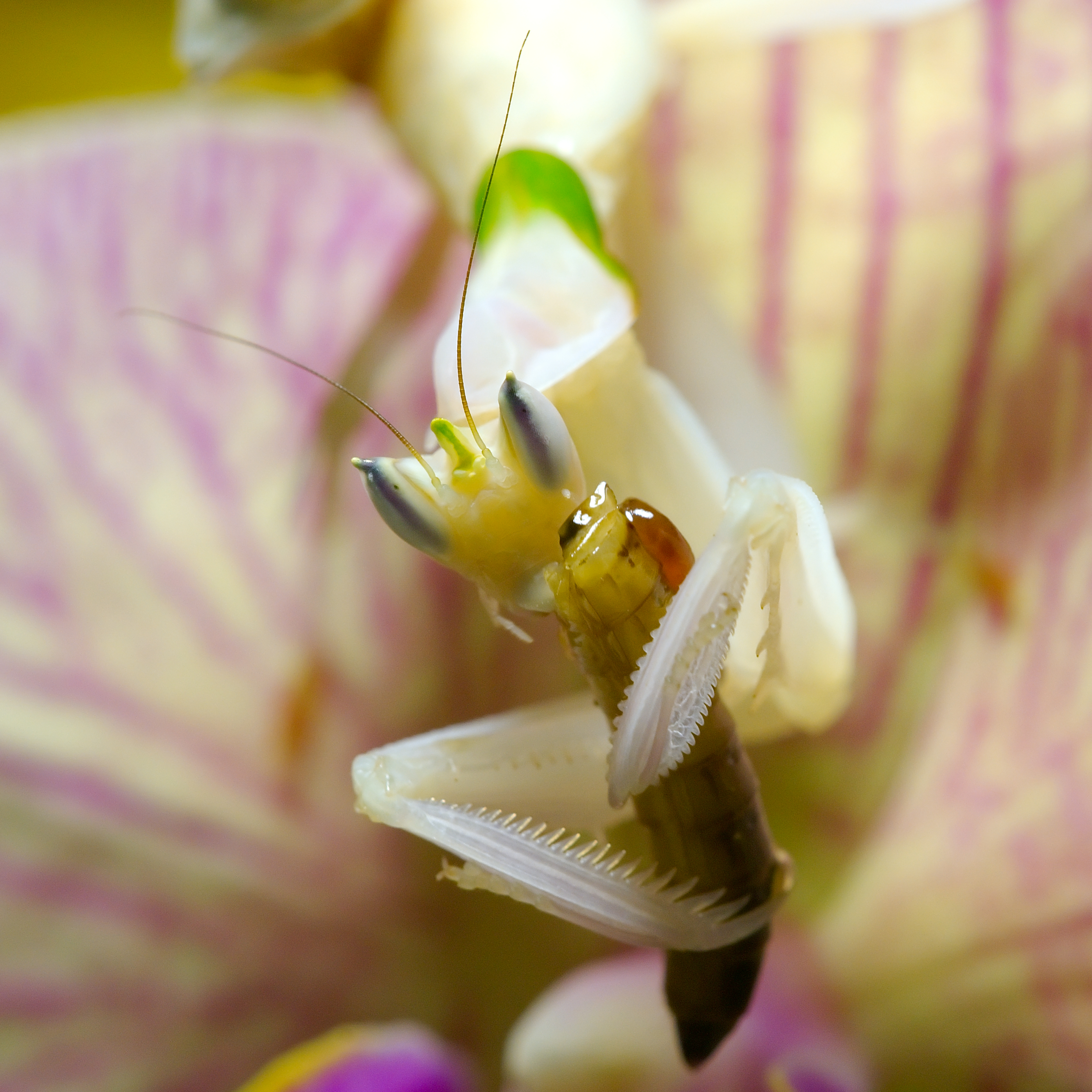 Hymenopus coronatus orchid mantis.